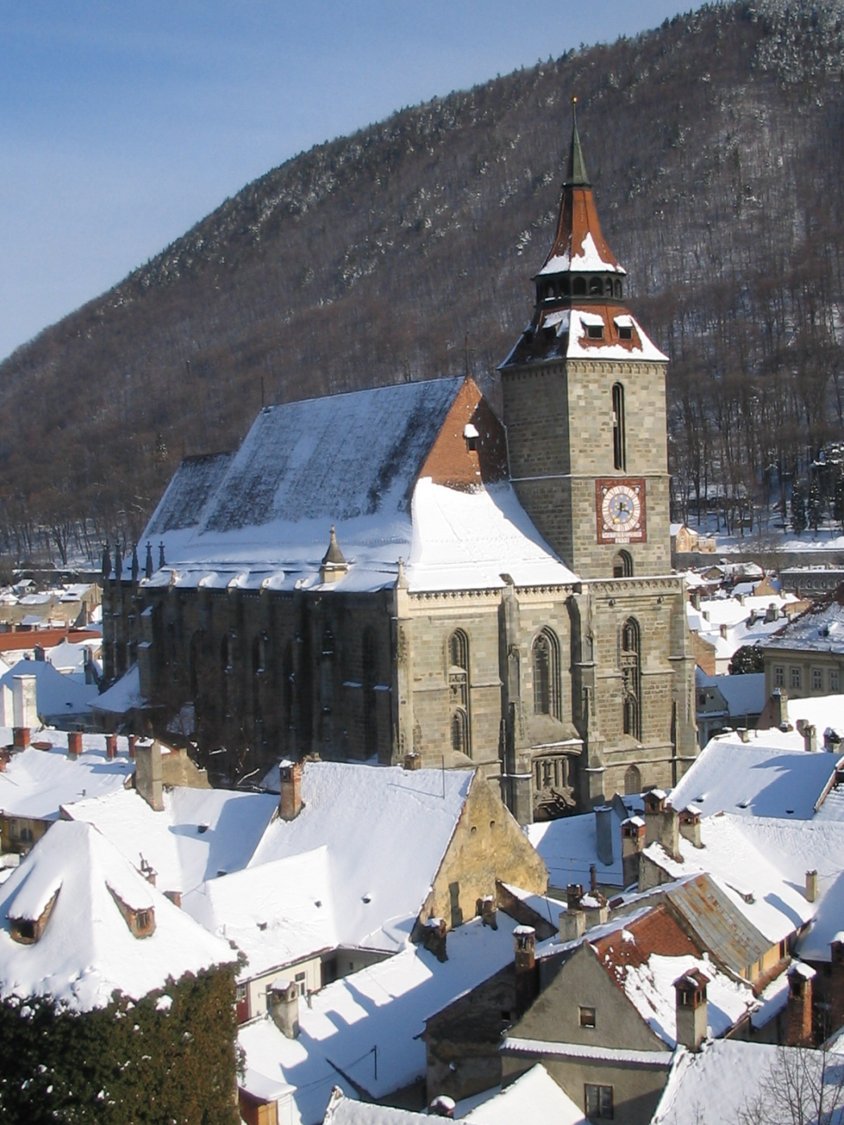 the Black Church in Brasov (winter)